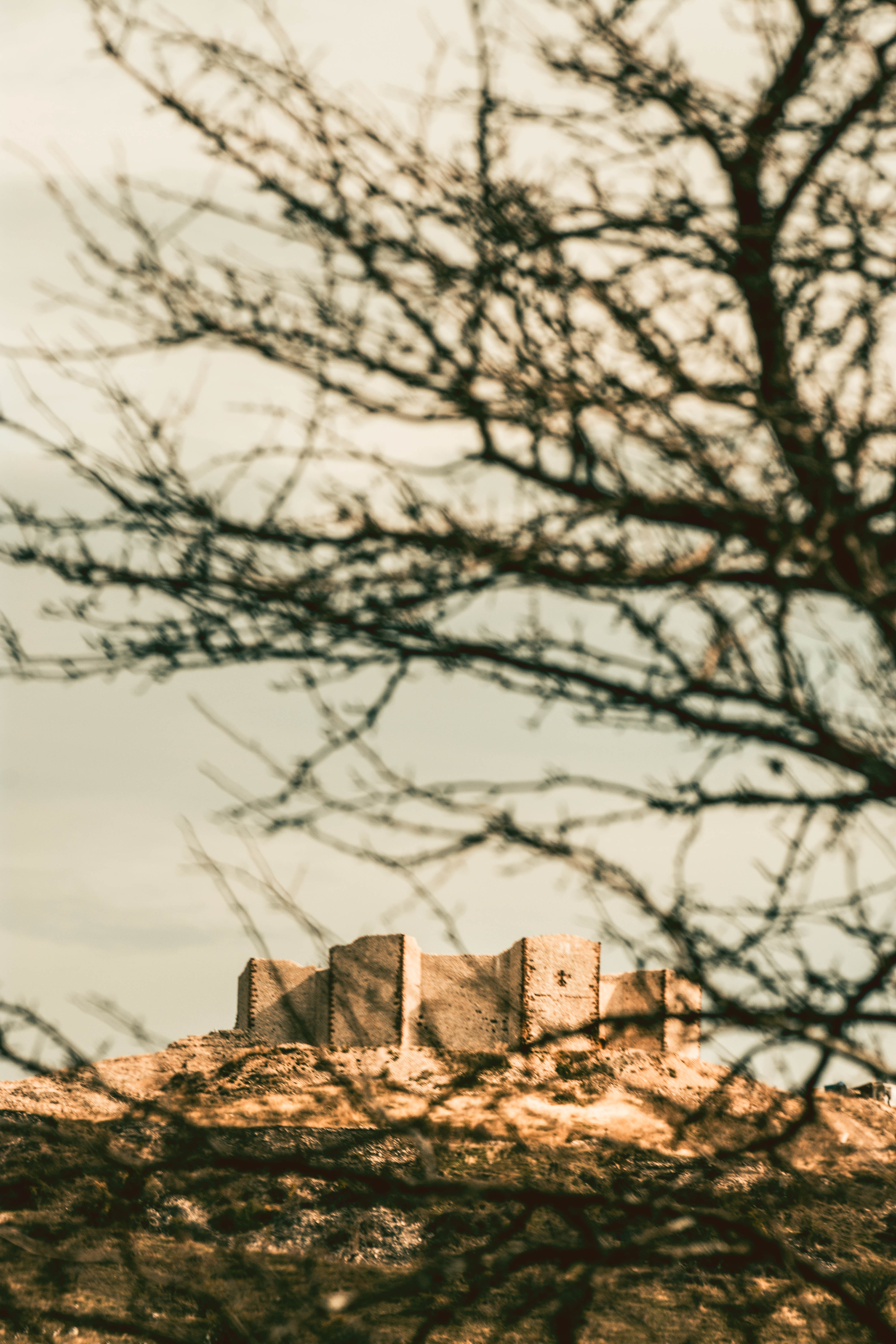 Artana Castle, Kosovo